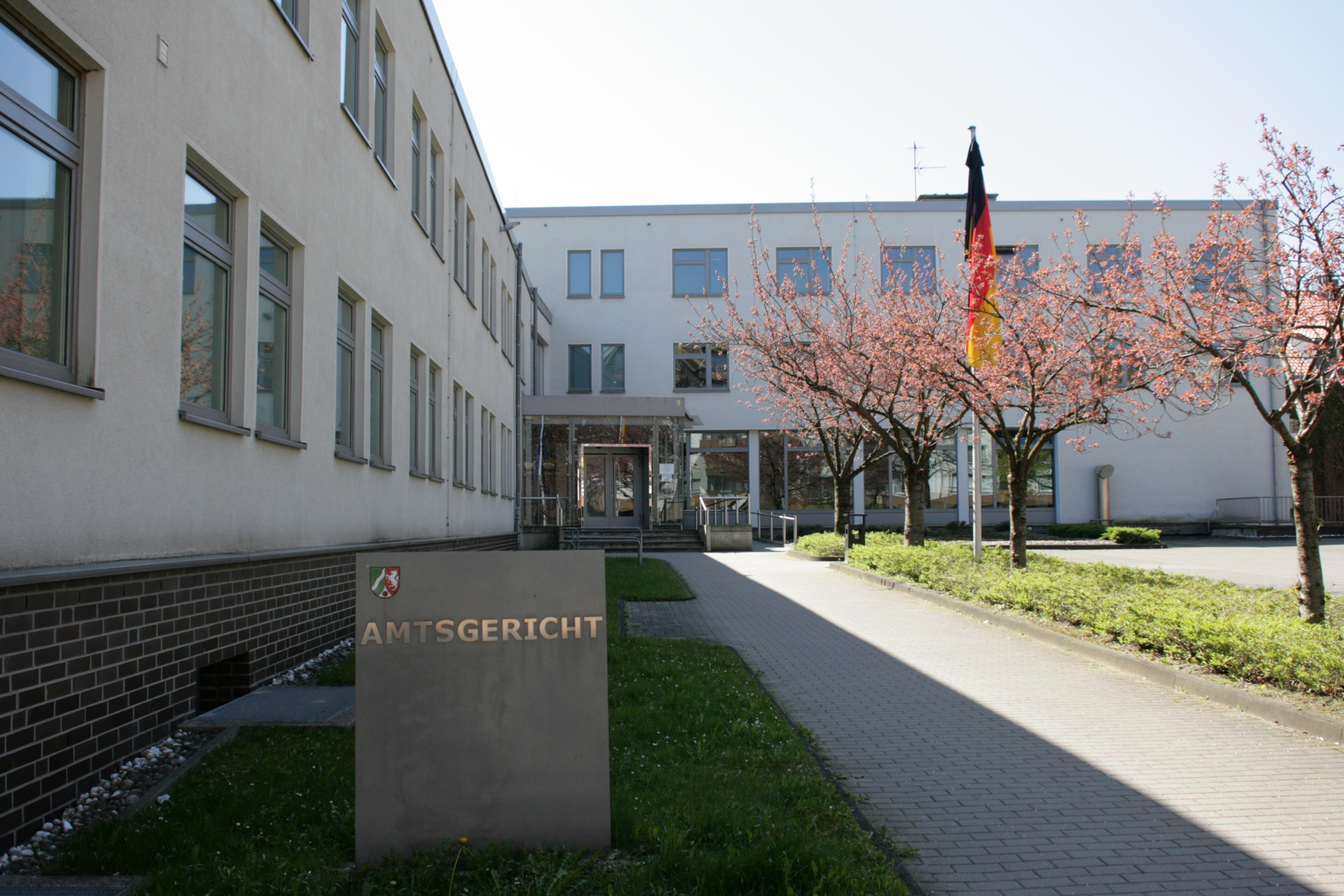 Amtsgericht, Bahnhofstraße in Hattingen